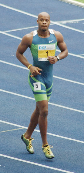 Asafa Powell at the 2006 ISTAF athletics meet